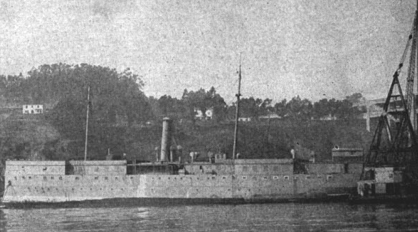 The U.S. Navy training ship USS Despatch (IX-2) at Yerba Buena Island, San Francisco Bay, California, in 1946. Despatch had been commissioned as the armoured cruiser USS Boston on 2 May 1887. On 18 June 1918, she was recommissioned at Mare Island Navy Yard as a receiving ship and towed to Yerba Buena Island, where she served until 1940. She was renamed Despatch, the sixth U.S. Navy ship to bear that name, on 9 August 1940, thus freeing her original name for use on the new heavy cruiser USS Boston (CA-69). From 1940 to October 1945, she was used as a radio school. The old ship was reclassified IX-2 on 17 February 1941 and was towed to sea and sunk off San Francisco on 8 April 1946.